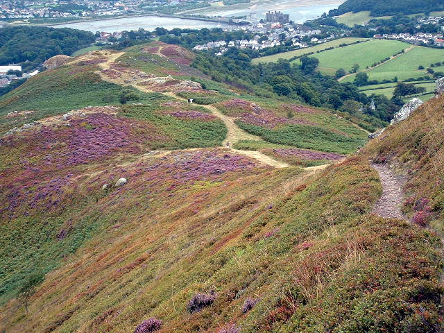 Conwy Mountain. Eastern Approach (Conwy river and castle visible in background)